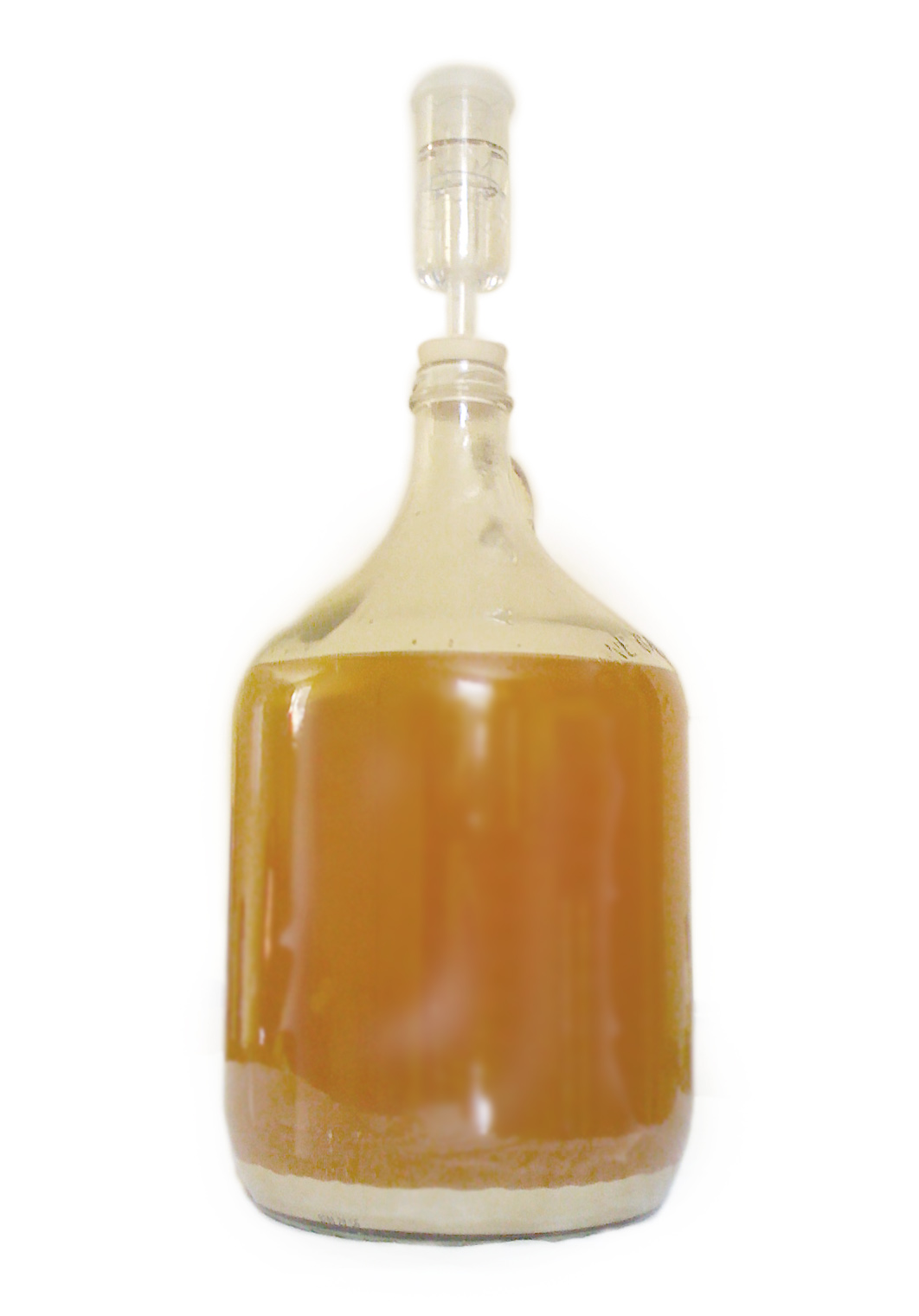 Trub, lees, home-brewing, beermaking, carboy